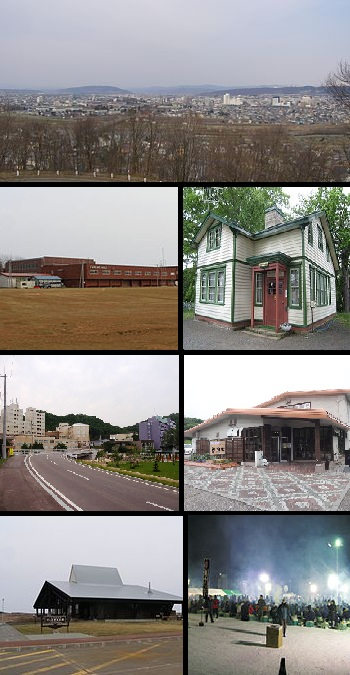 Kitami montage